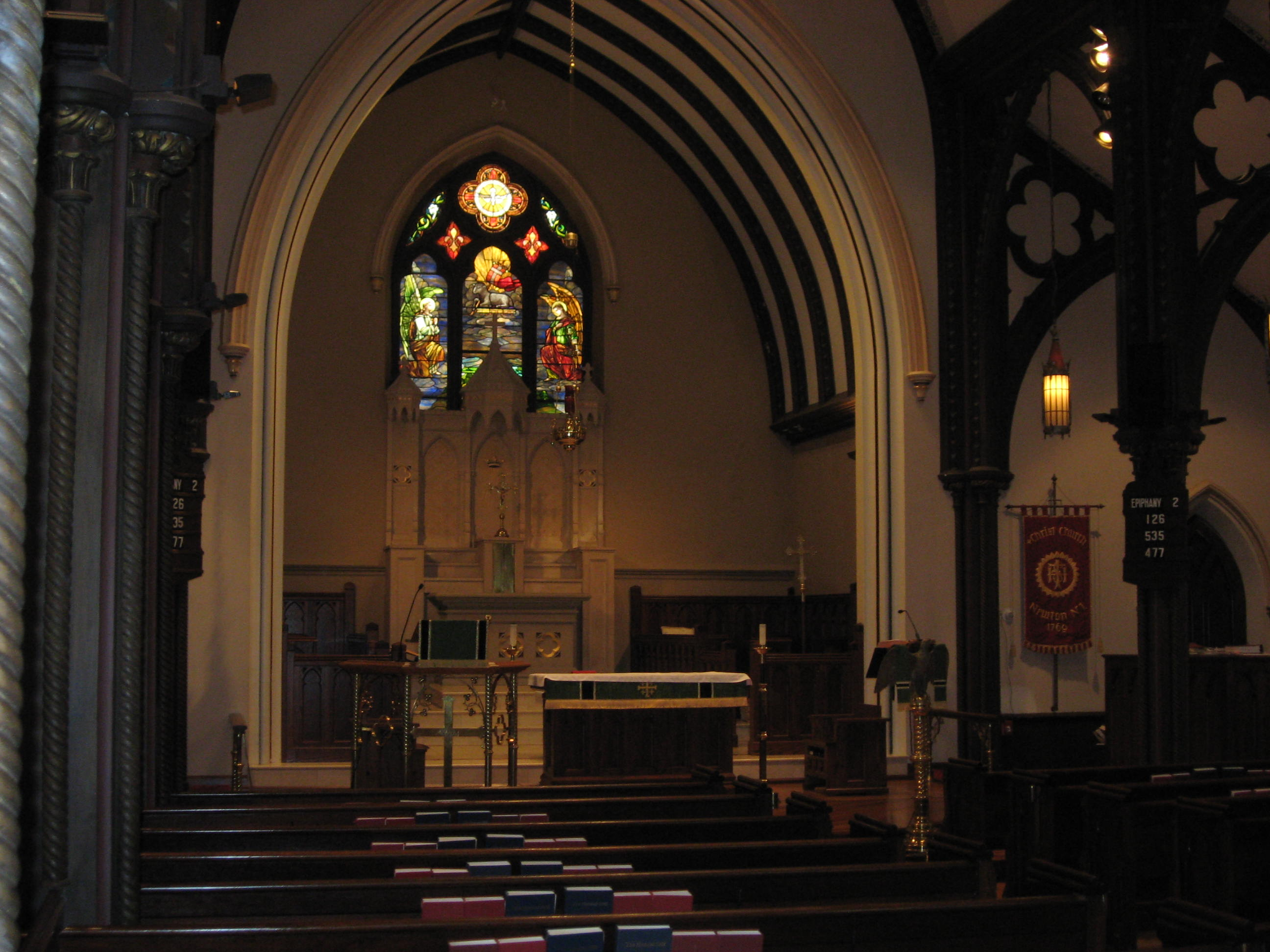 The interior of Christ Church, Newton, located in Newton, Sussex County, New Jersey, taken from the back of the sanctuary facing the altar.